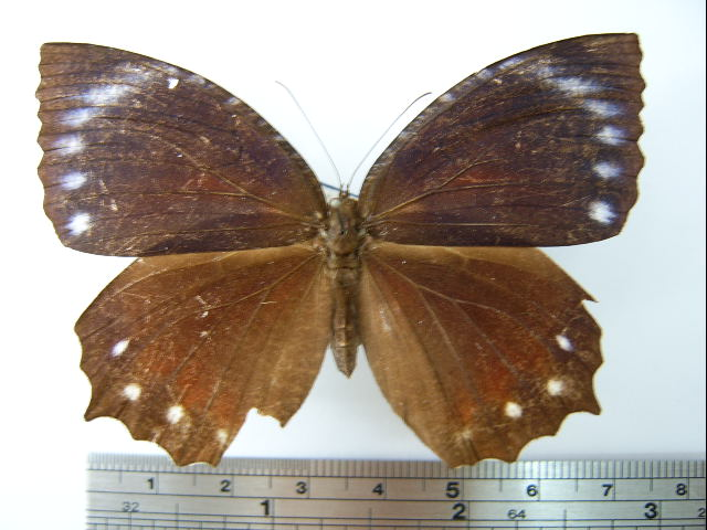 Kerry took this picture at his house on 16 July 2005 Scientific name: Elymnias hypermnestra hainana ♀ Date of collection: 4 VIII 1996 Place of collection: Taipei city, Taiwan